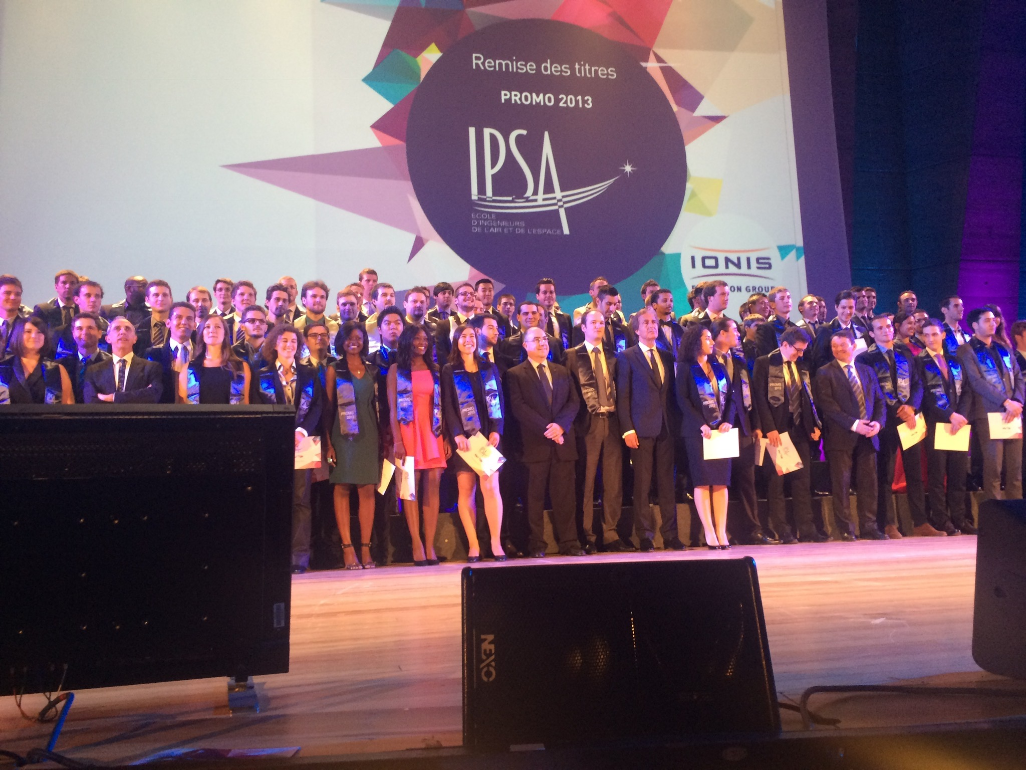 Promotion 2013 of IPSA, French aerospace university